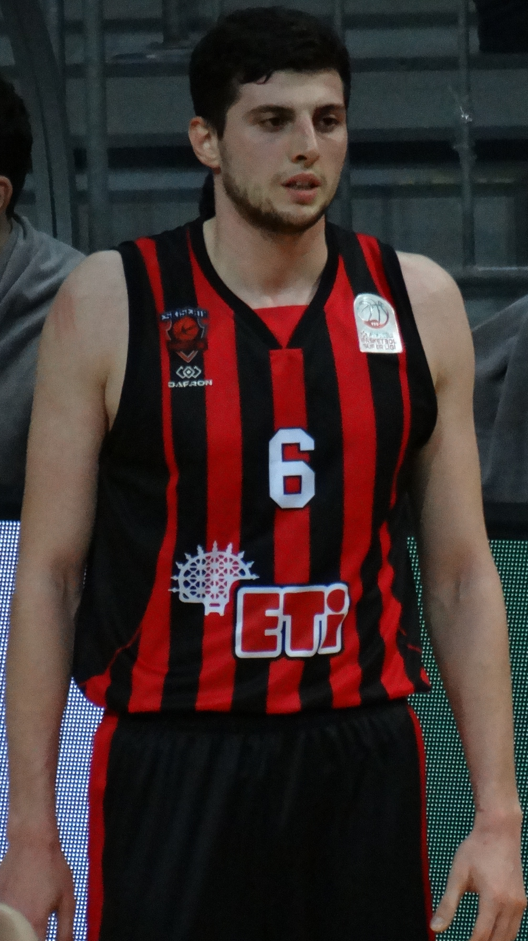 Berkay Candan 6 Eskişehir Basket TSL 20180325